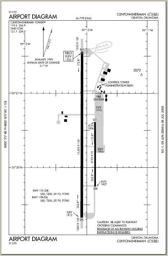 FAA diagram for Clinton-Sherman Airport (CSM) at Clinton-Sherman Industrial Airpark near Clinton, Oklahoma, United States. Recently (June 2006) licensed to be a spaceport.